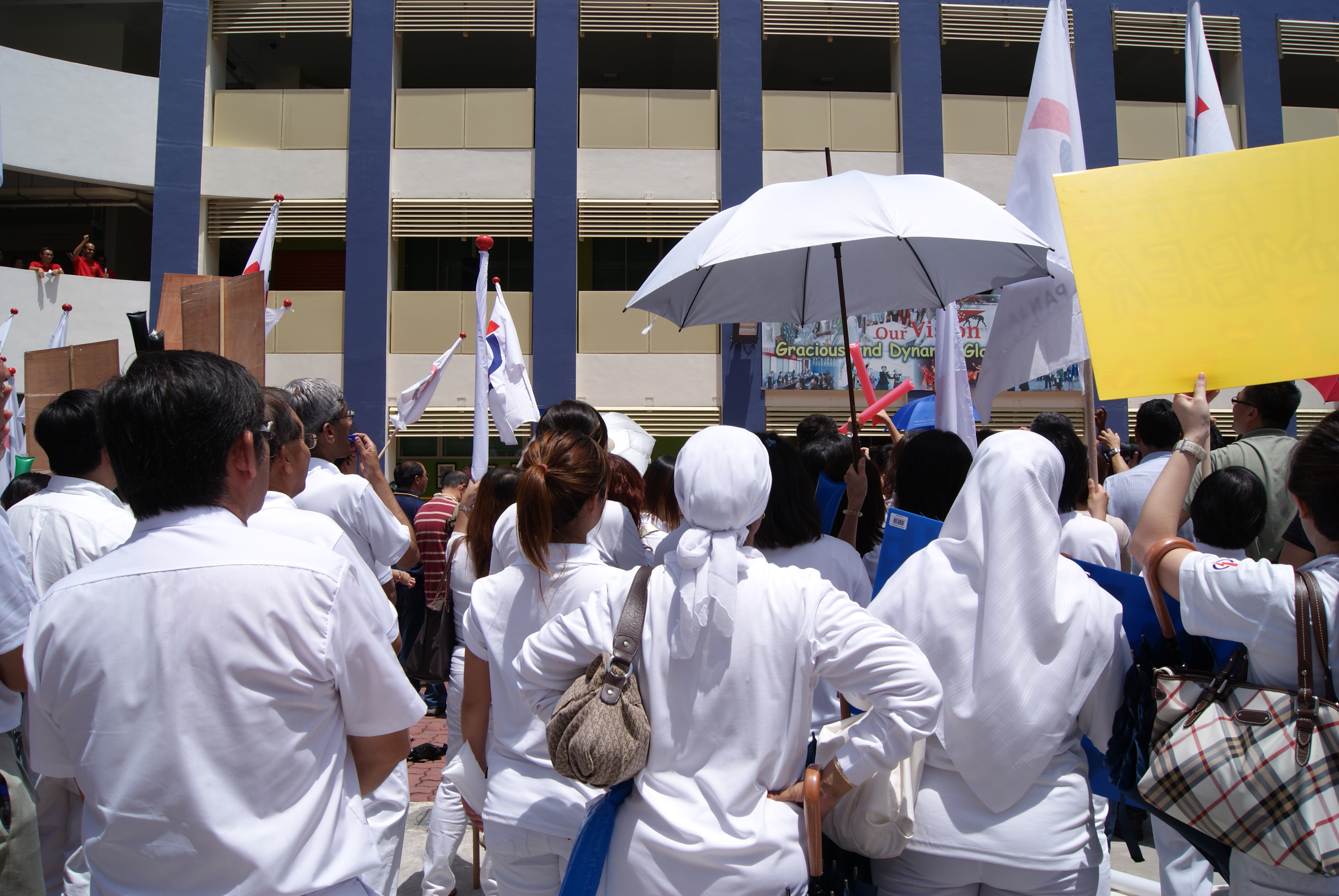 People's Action Party supporters listening to their candidate Teo Ho Pin as he addresses them at Greenridge Secondary School in Bukit Panjang, Singapore, which was used as the nomination centre for Bukit Panjang Single Member Constituency and Holland-Bukit Timah Group Representation Constituency during the Singaporean general election, 2011.